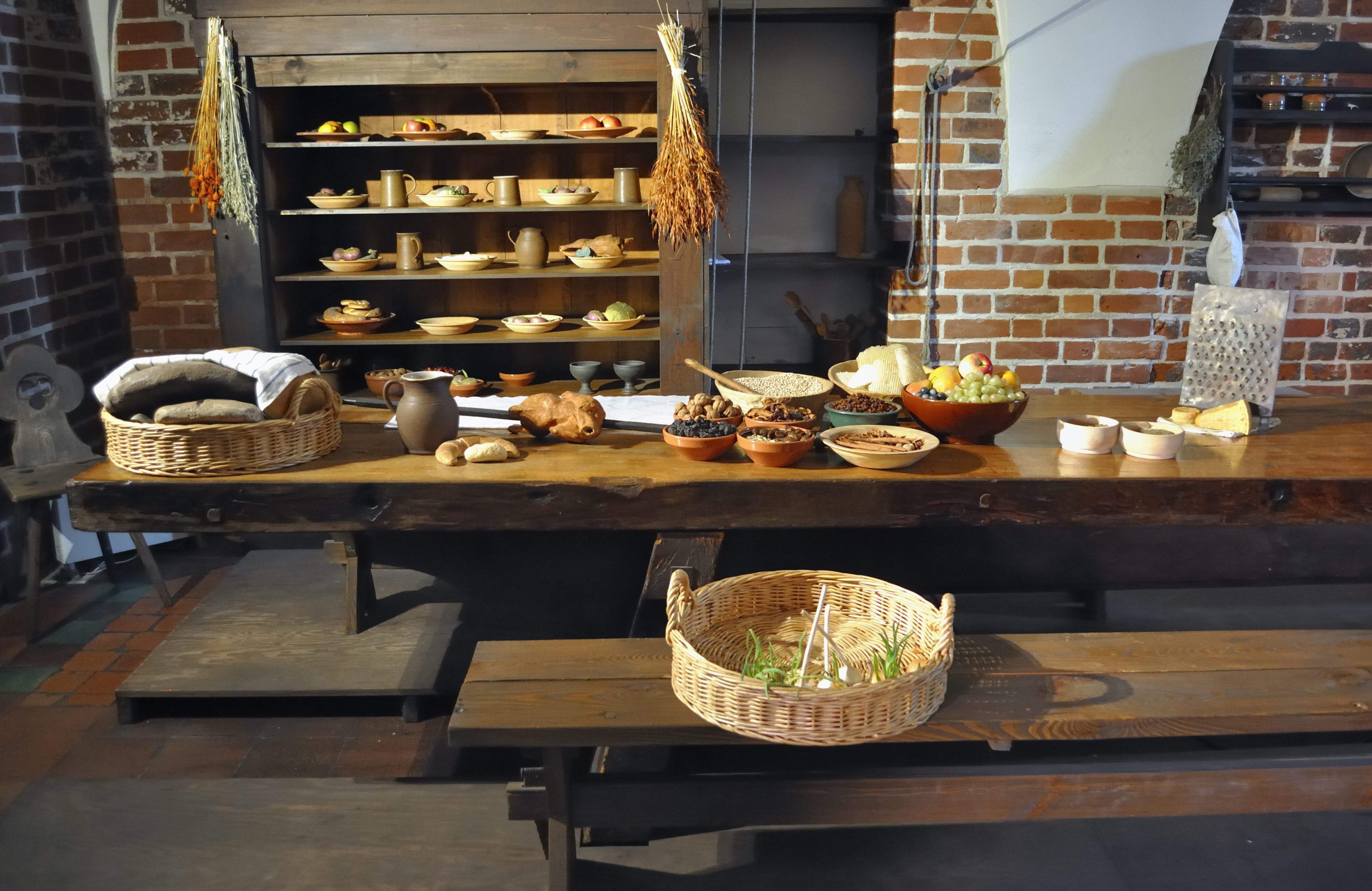 Picture taken in Malbork after Wikimania 2010 conference.